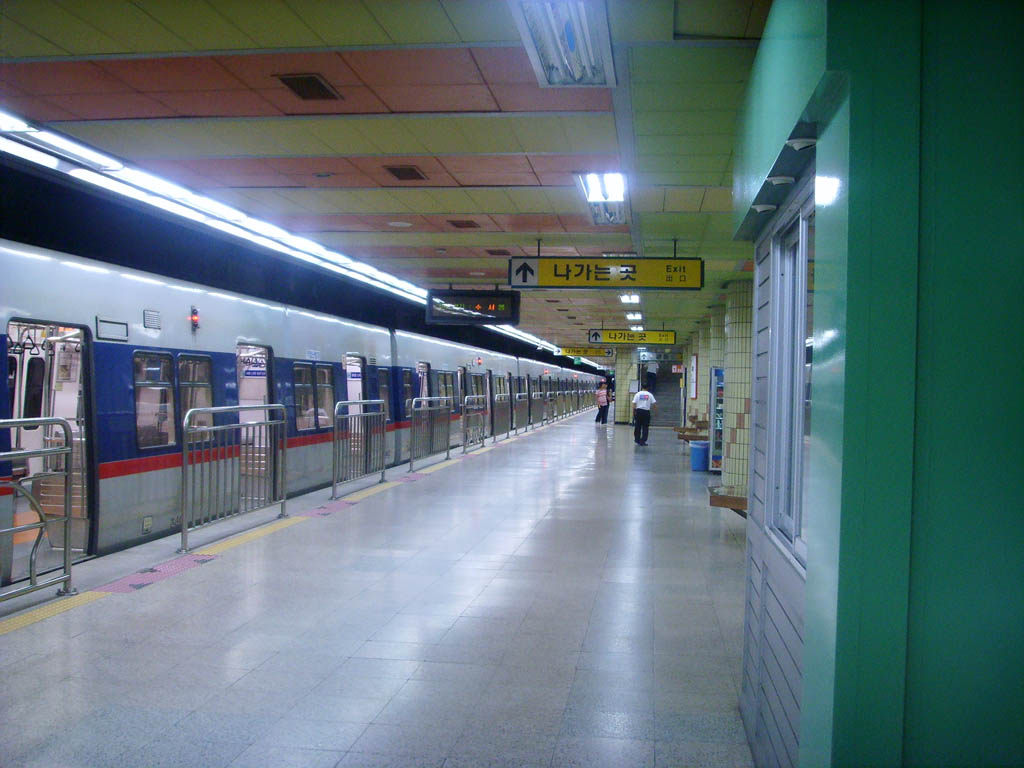 Seoul Subway Line 3 Daehwa Station